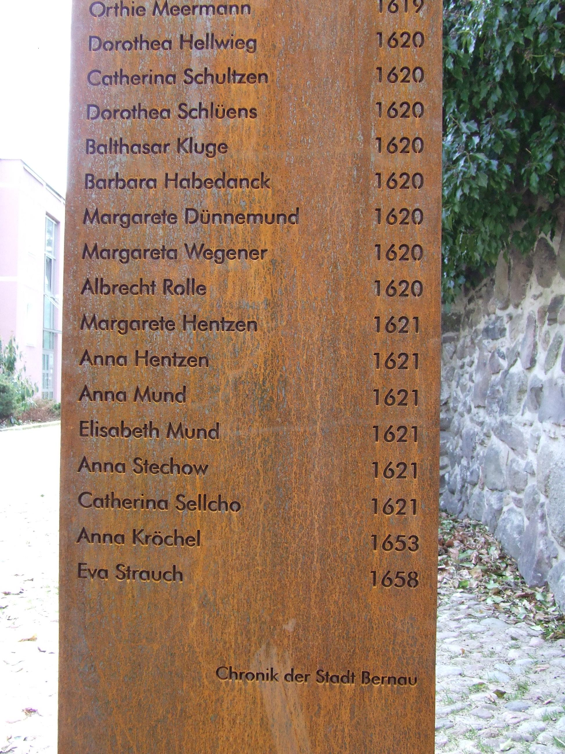 Memorial of the witches in Bernau bei Berlin (part two of the names).